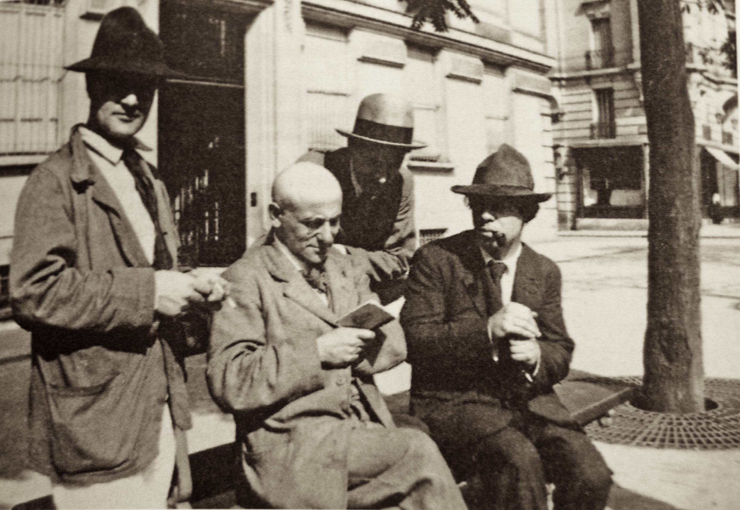 Amedeo Modigliani, Max Jacob, Andre Salmon and Ortiz de Zarate in an old image taken by Jean Cocteau in Montparnasse, Paris in 1916